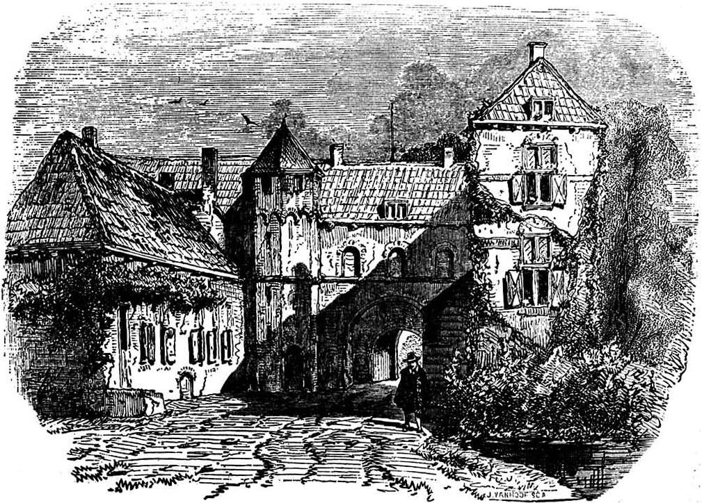 Het Oude Loo castle, Apeldoorn, inner court.